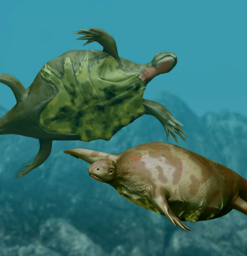 Odontochelys semitestacea, from the Late Triassic of China, the oldest known turtle. Digital.